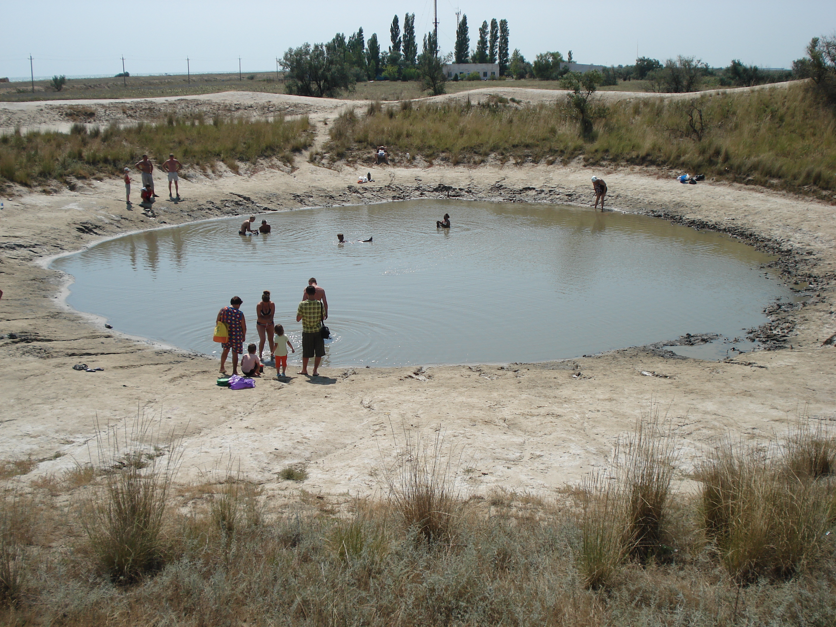 Kolizey radonic source in Strilkove, Kherson Oblast, Ukraine